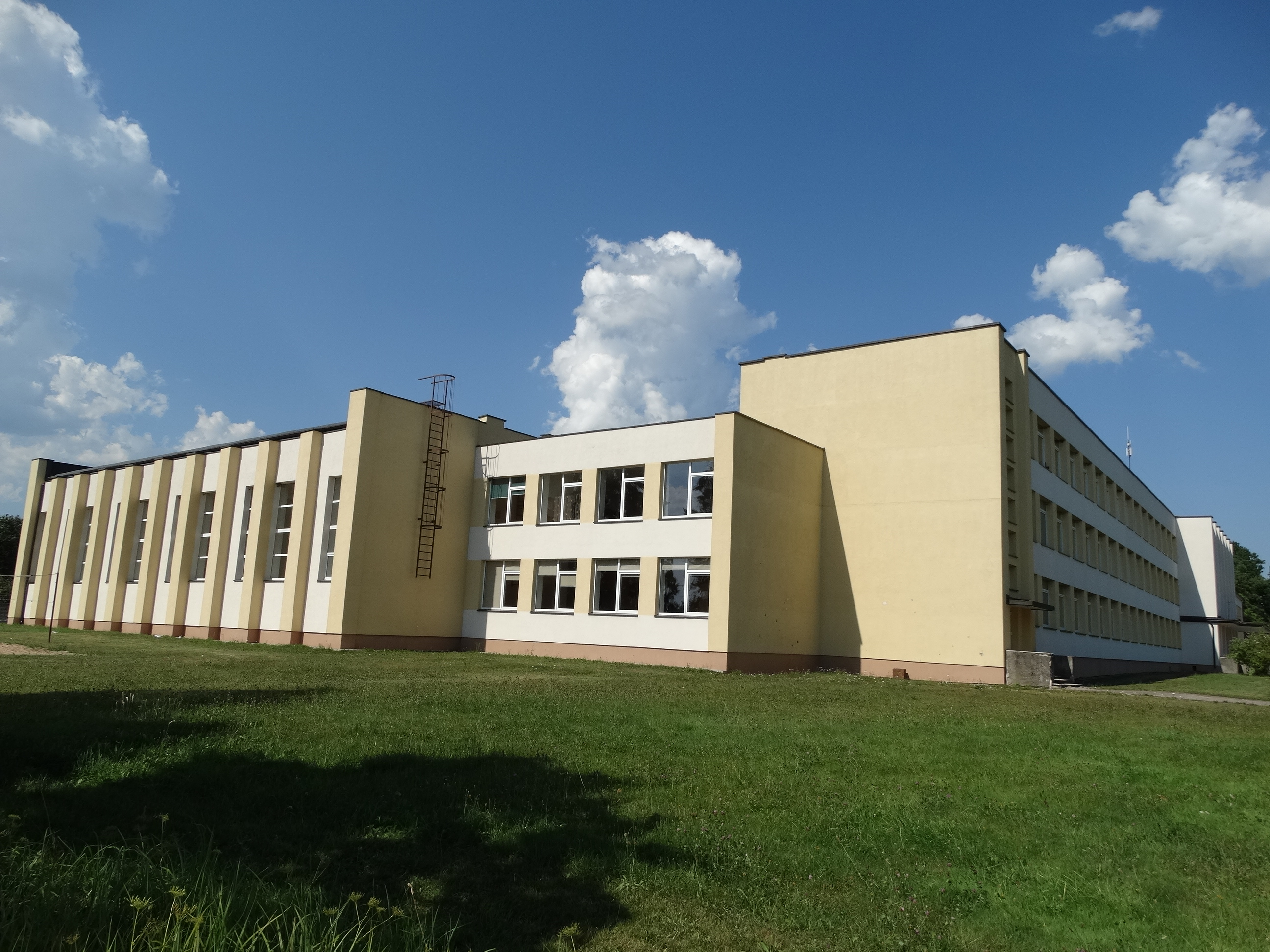 Gymnasium, Juodupė, Rokiškis District, Lithuania